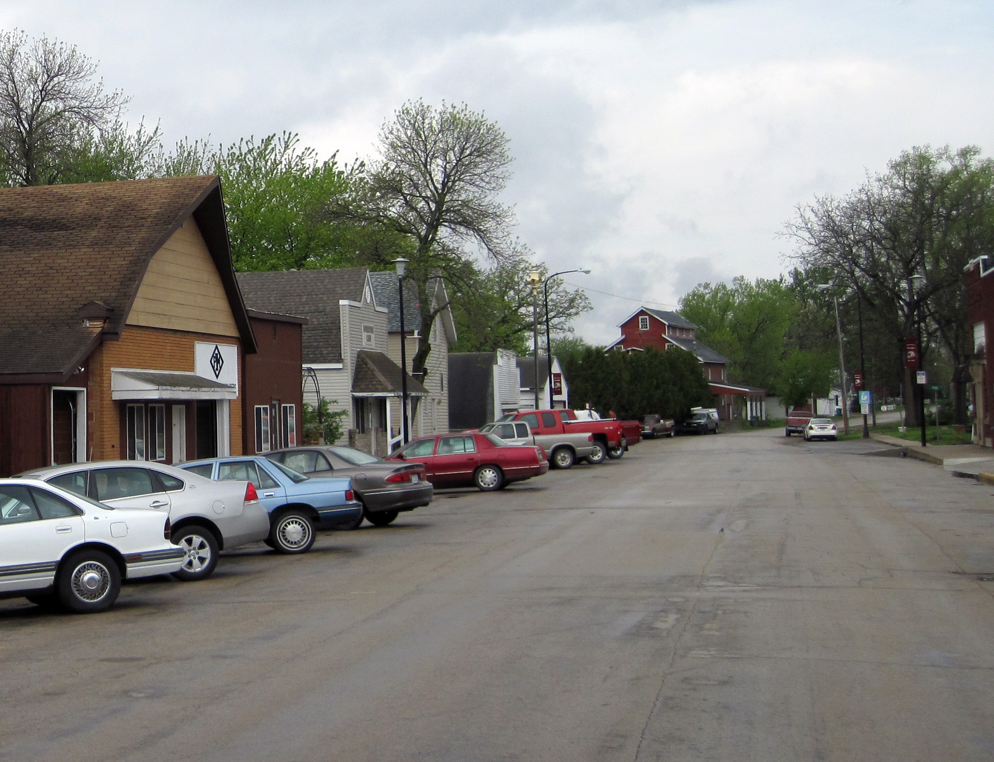 Fertile